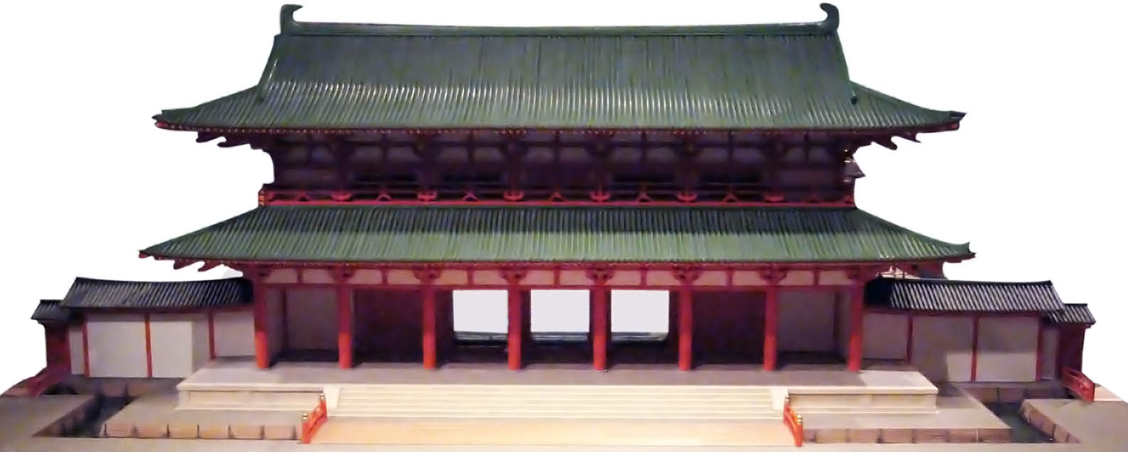 Miniature Model of Heiankyo Rajomon. 平安京羅城門復元模型（京都文化博物館）